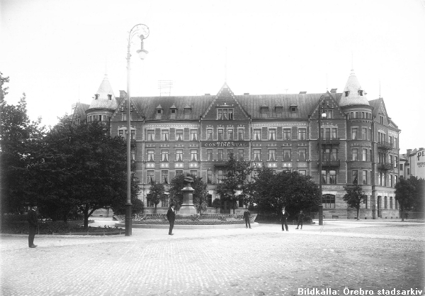 Hotel Continental, Örebro, Sweden